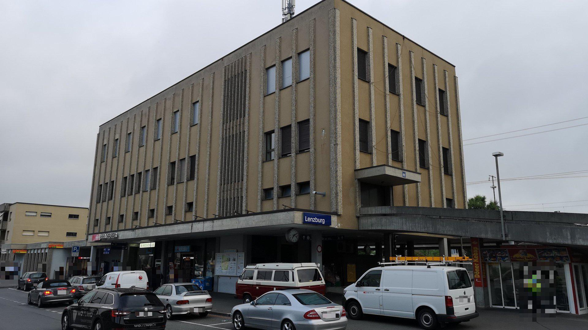 Lenzburg railway station in Lenzburg, Switzerland.